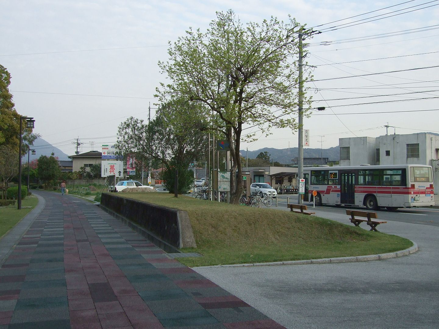 The ruin of Shimoumi Station, Katsuta Line